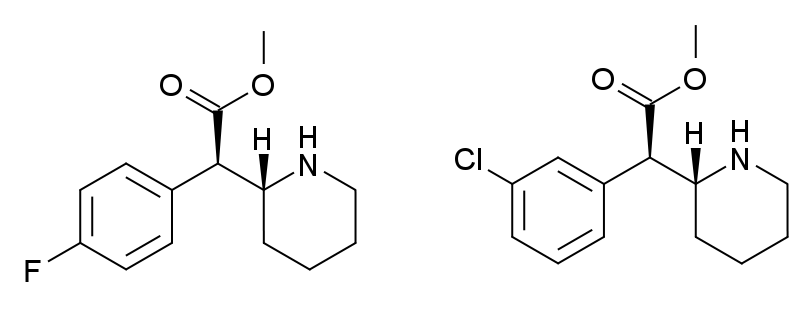 i drew this anyone can use it